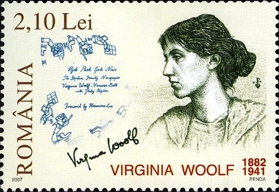 Virginia Woolf. Romania stamp.